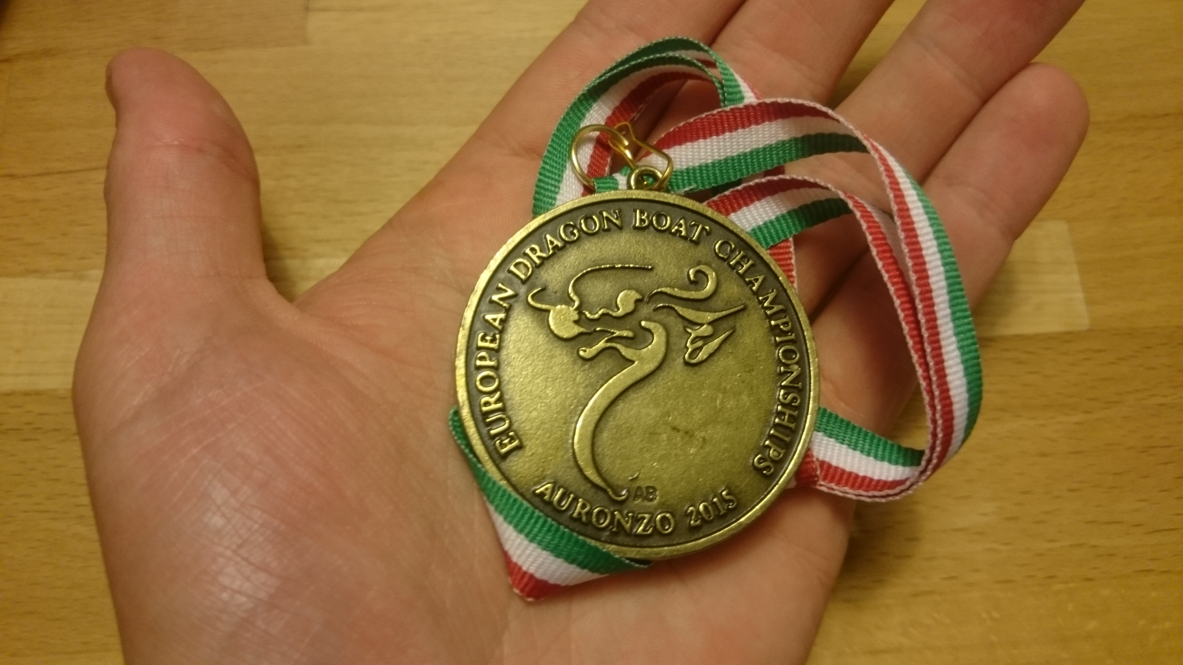 Bronze Medal of the ECA European Dragon Boat Championships 2015 in Auronzo di Cadore, Italy.